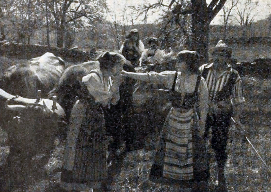 Illustration of an article in The Moving Picture World for the American film The Eternal Question (1916).